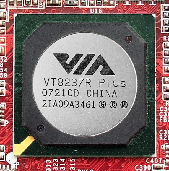 VIA VT8237R Plus southbridge of a Socket AM2 mainboard.